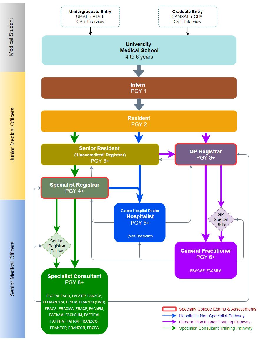 Medical Career Pathway6